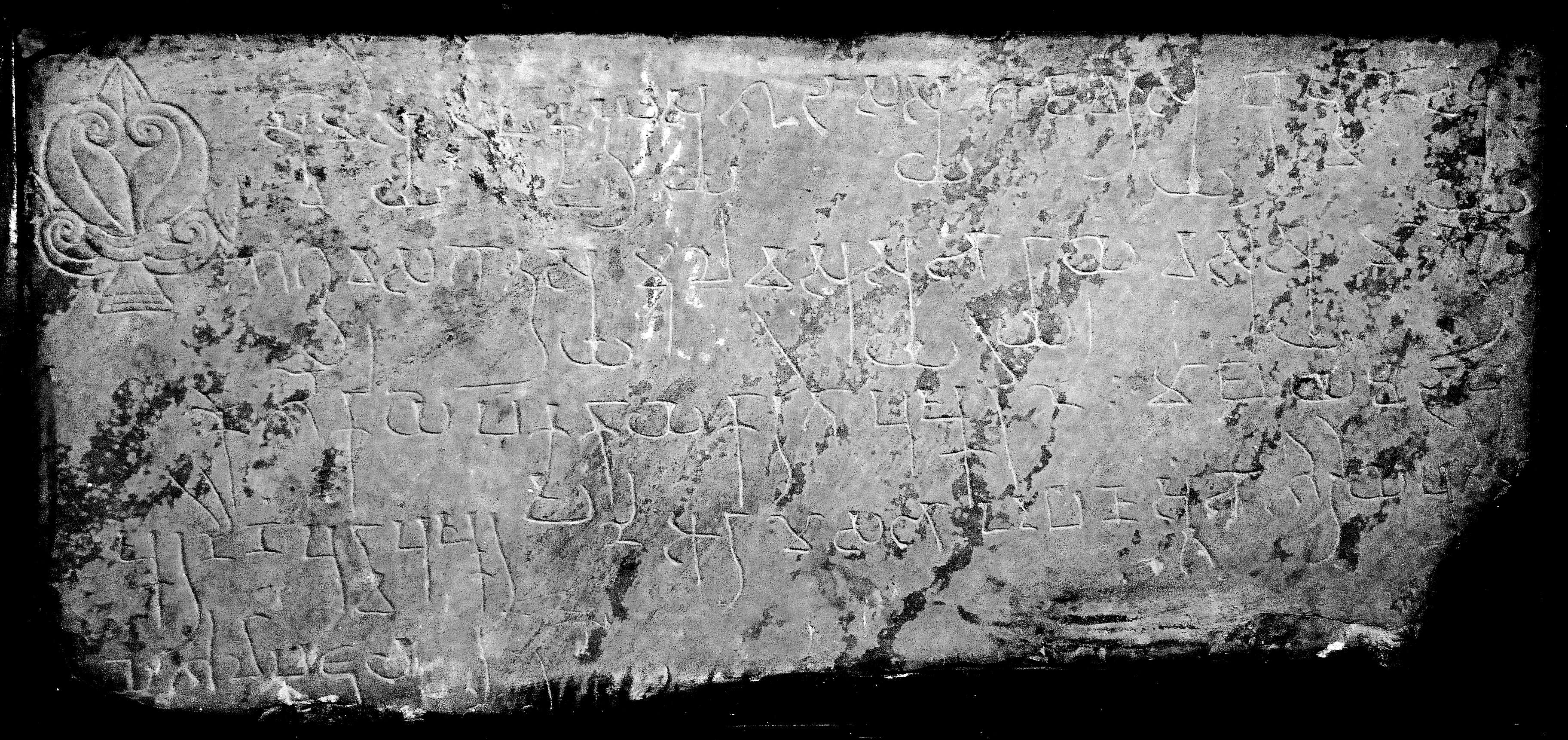 Inscription of Sodasha Reign - Circa 1st Century BCE - Mirzapur - ACCN 79-29 - Government Museum - Mathura B&W